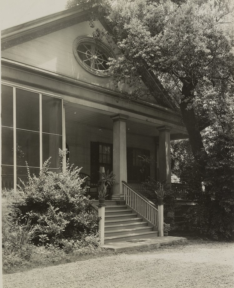 Title Cottage garden, Natchez, Adams County, Mississippi Contributor Names Johnston, Frances Benjamin, 1864-1952, photographer Created / Published 1938. Subject Headings - United States--Mississippi--Adams County--Natchez - Bull's eye windows. - Porches. - Stairways. - Houses. - Mississippi--Adams County--Natchez Format Headings Photographic prints. Notes - Title from photographer's inventory. - Home of the Foster family. At one time owned by Jose Vidal, acting Gov. of Natchez Territory. - Building/structure dates: ca. 1790. - Corresponding Carnegie Survey of the Architecture of the South neg. no. 1029. Library has no record of having this neg. - Gift; Anne E. Peterson; 2011; (DLC/PP-2011:206) - Forms part of: Carnegie Survey of the Architecture of the South (Library of Congress). Medium 1 photographic print. Call Number/Physical Location LOT 11838-1 [item] [P&P] Repository Library of Congress Prints and Photographs Division Washington, D.C. 20540 USA Digital Id ppmsca 32352 //hdl.loc.gov/loc.pnp/ppmsca.32352 Control Number csas201207180 Reproduction Number LC-DIG-ppmsca-32352 (digital file from photograph) Rights Advisory No known restrictions on publication. Online Format image Description 1 photographic print.